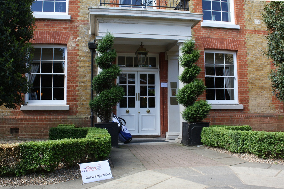 Buckinghamshire Golf Club